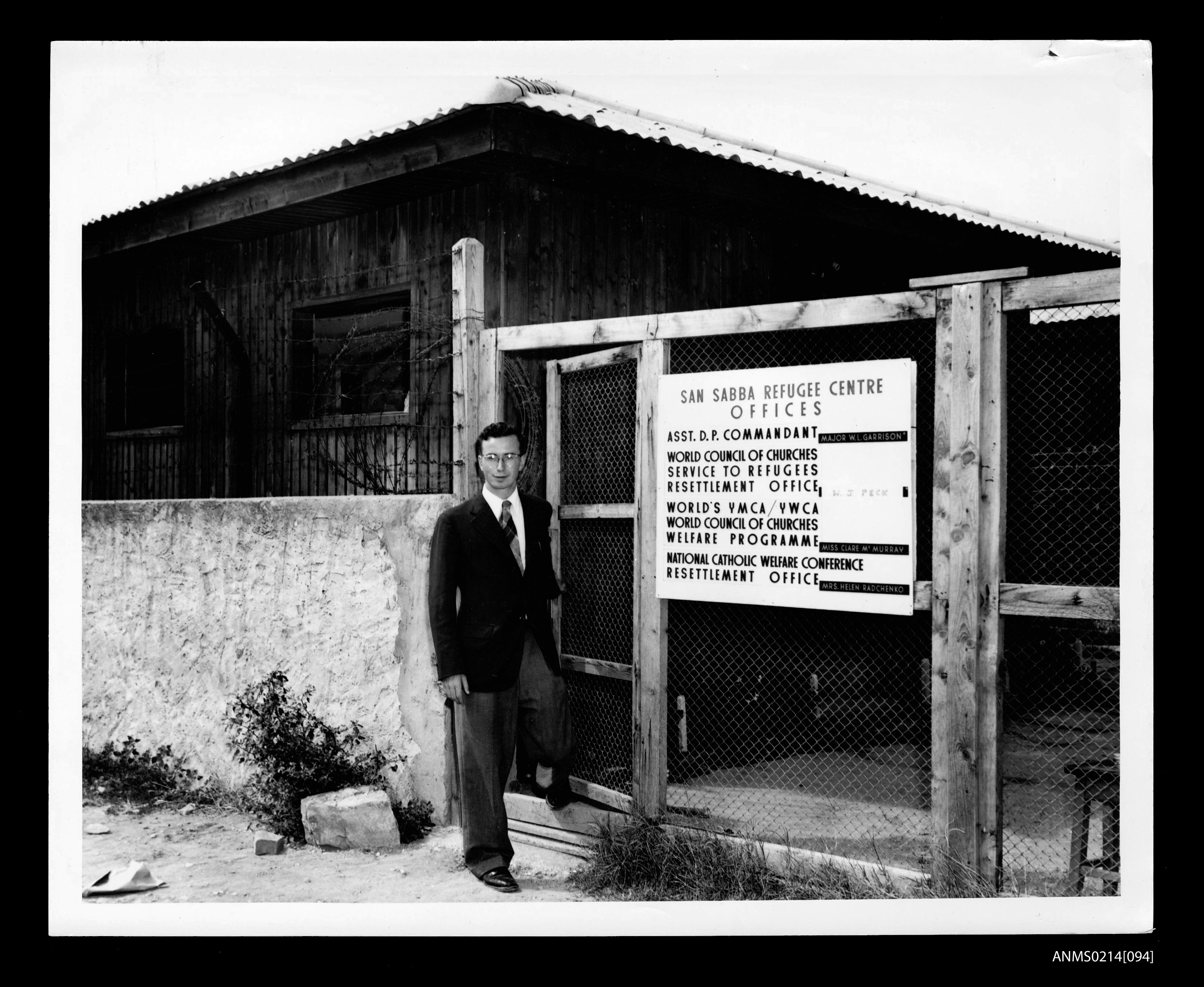 On the reverse of this image is ap urple ink stamp reading `International Refugee Organization HQ US zone Germany. The International Refugee Organization operated in Trieste between 1947 and 1952. The ANMM undertakes research and accepts public comments that enhance the information we hold about images in our collection. Object no. ANMS0214[094] The Australian National Maritime Museum will be holding an after-dark lightshow based on stories of migration from 26 January to 17 February 2013. Check the website for more information on 'Waves of Migration', and how you can tell share your migration story.